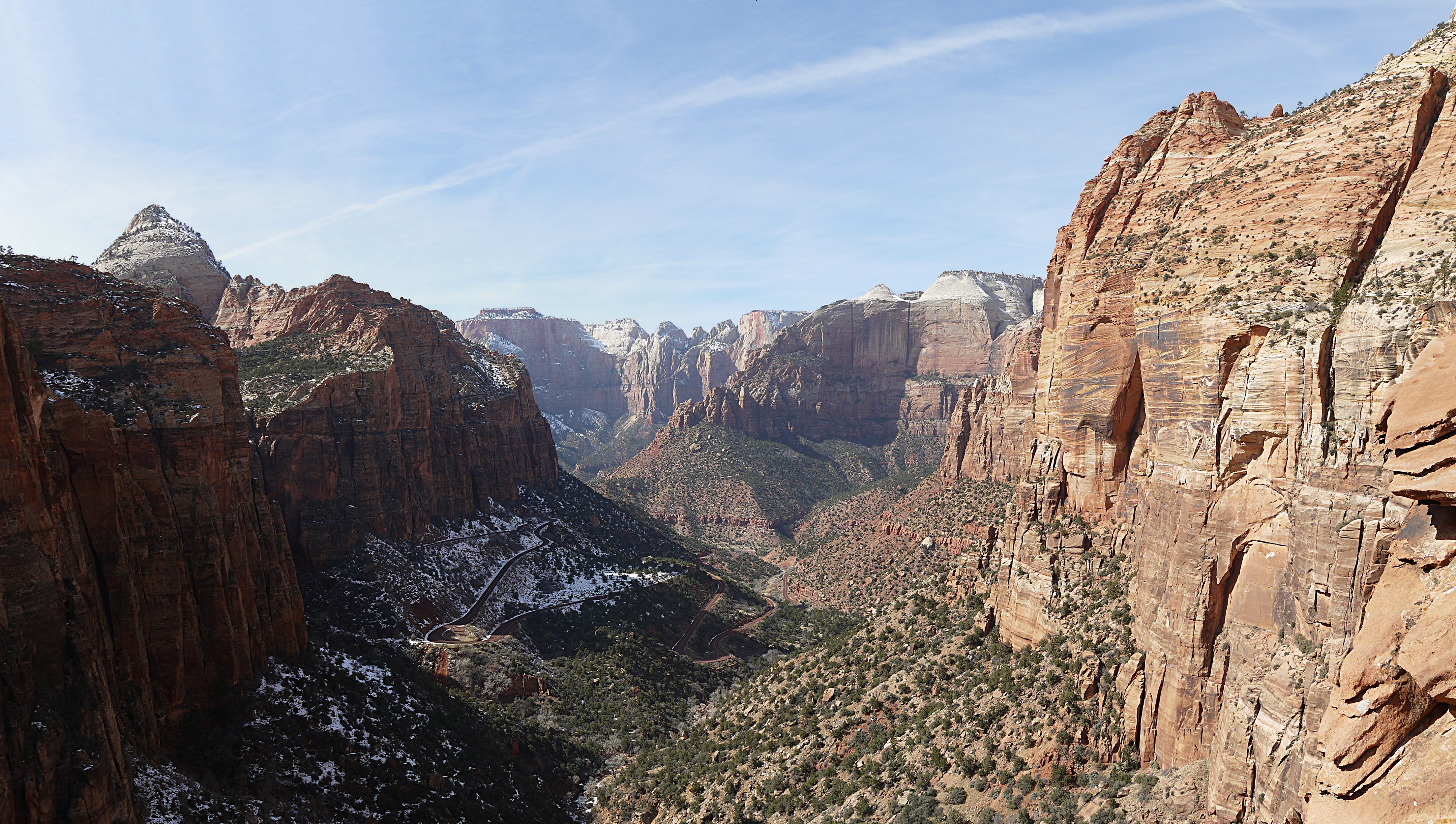 The Pine Creek Canyon seen at the end of the Overlook Trail.